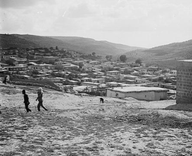 Cropped skyline photography of the Circassian village of Wadi Sir in central Transjordan, Ottoman Empire near modern Amman